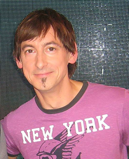 Maciej Miecznikowski (born in 1969) - polish miusician